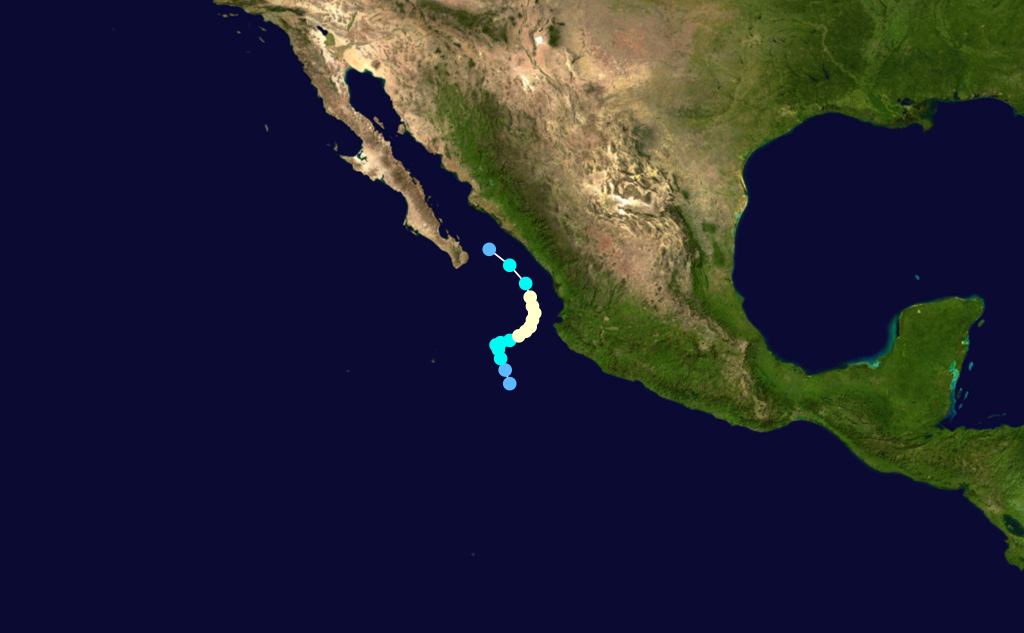 Hurricane Madeline (1998) track. Uses the color scheme from the Saffir-Simpson Hurricane Scale.